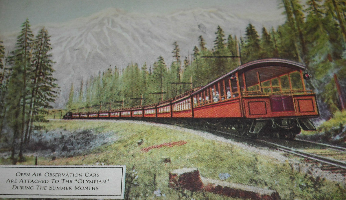 Postcard depiction of the open air observation car used on the Milwaukee Road's "Olympian" during summer months.